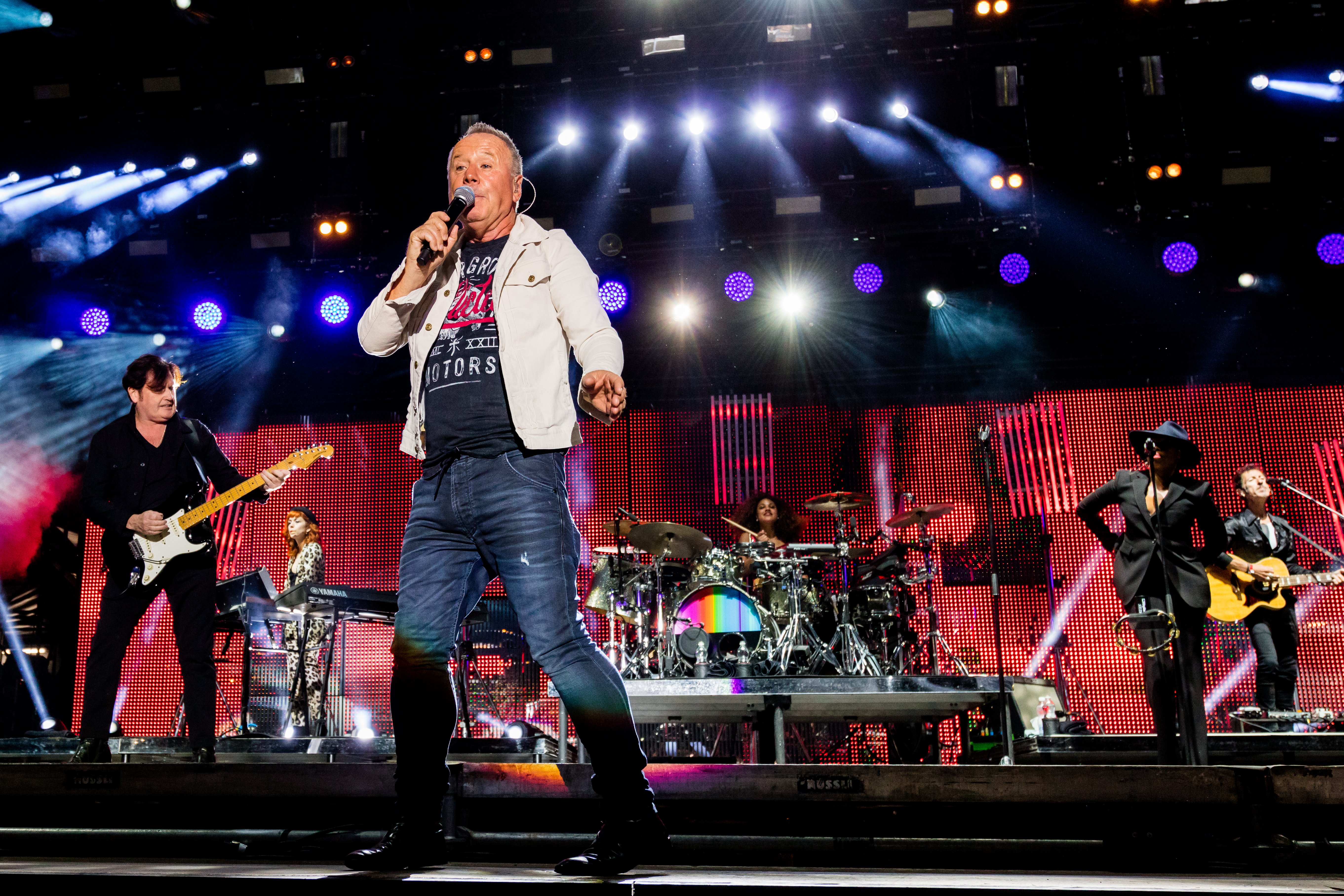 Simple Minds @ Rock the Ring 2018